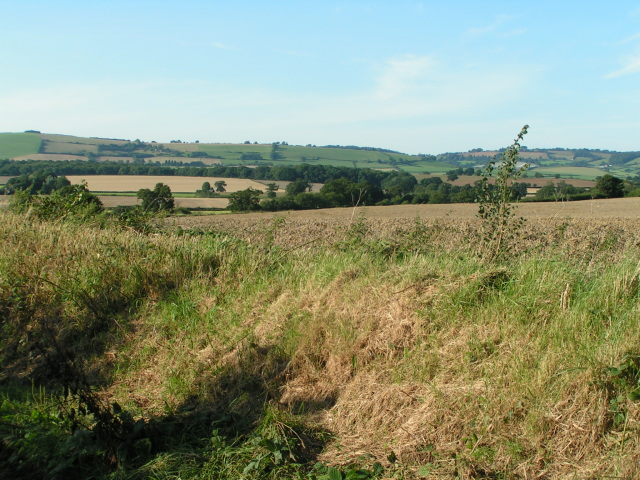 Looking towards Stevenstone Barton from the green lane